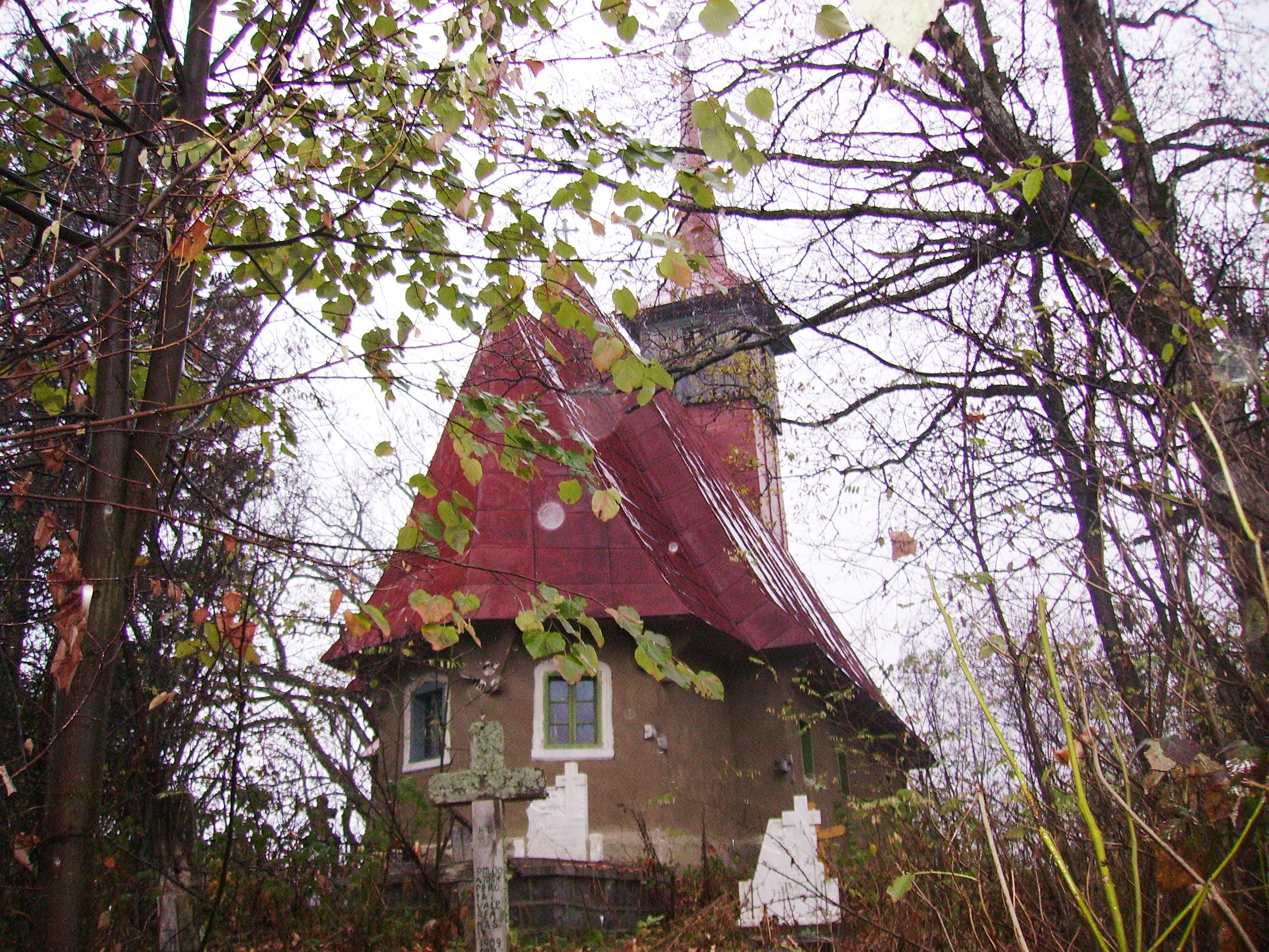 The wooden church in Grohot, Hunedoara county, Romania